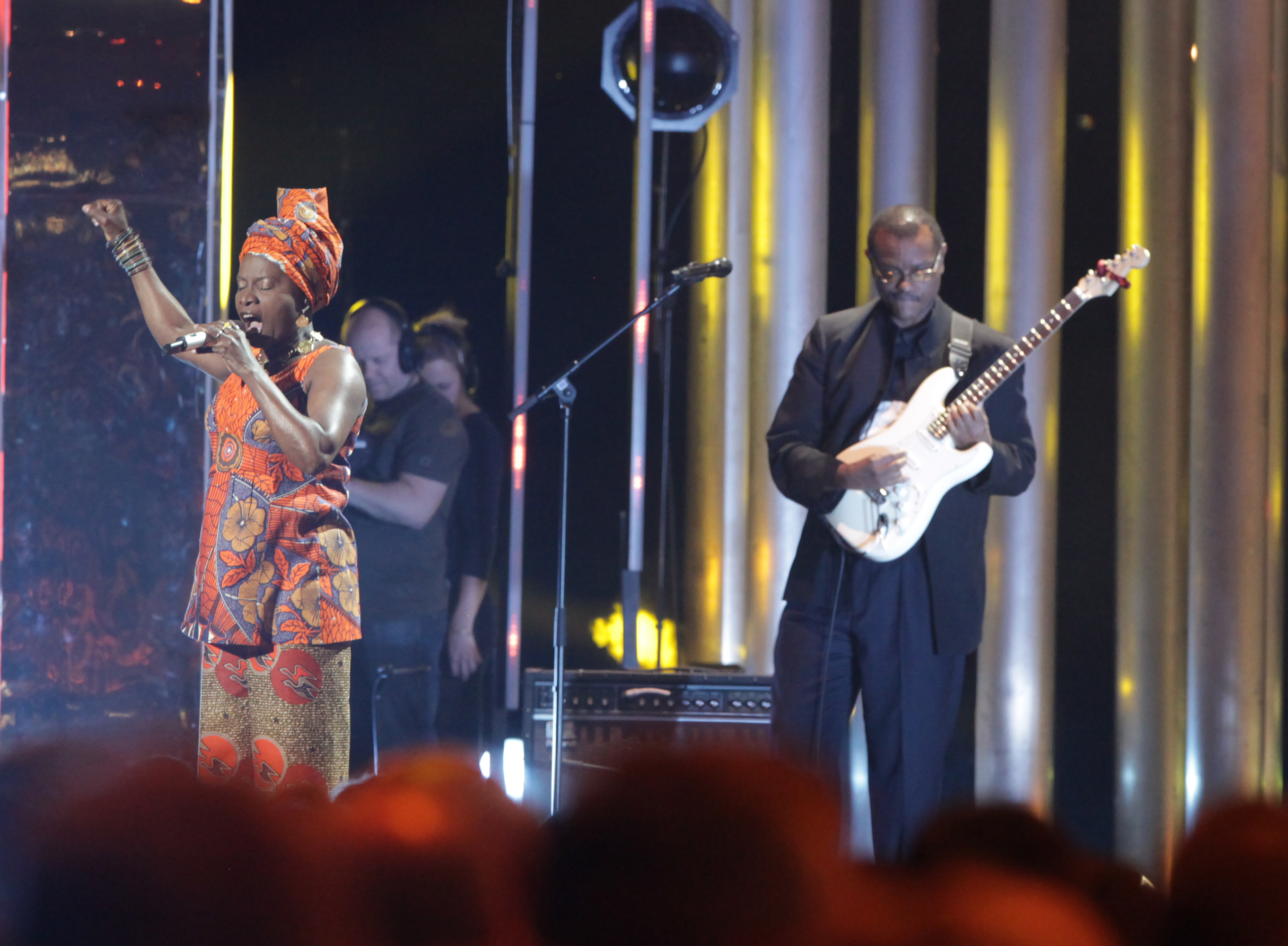 Nobel Peace Prize Concert 2011, Angélique Kidjo